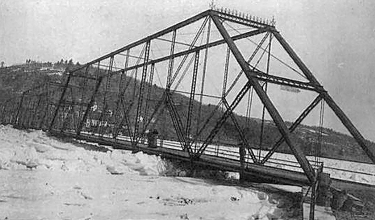 Former Callicoon Bridge over the Delaware River during heavy winter ice in 1904